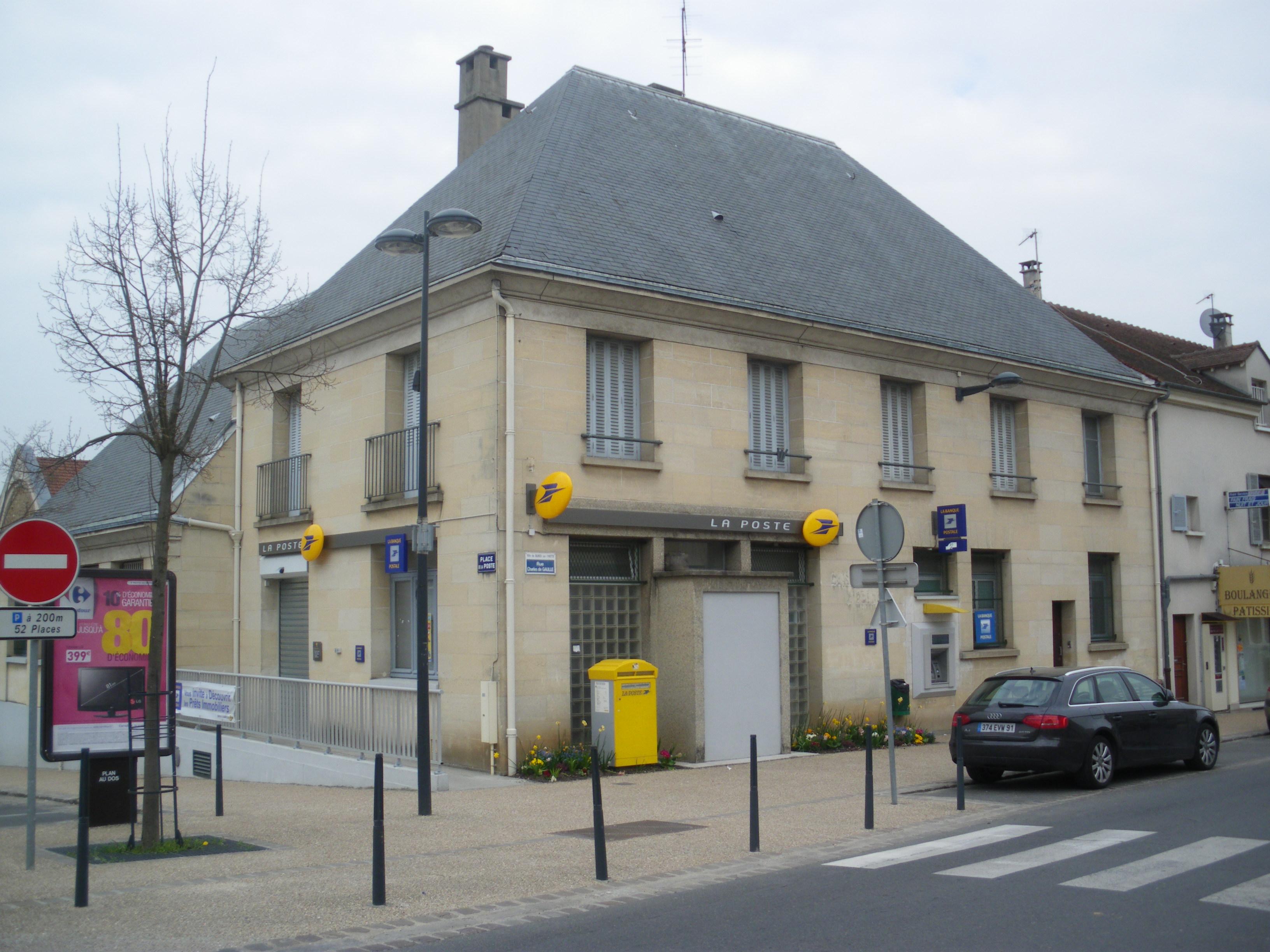 Post office in Bures-sur-Yvette, Essonne, Île-de-France, France.